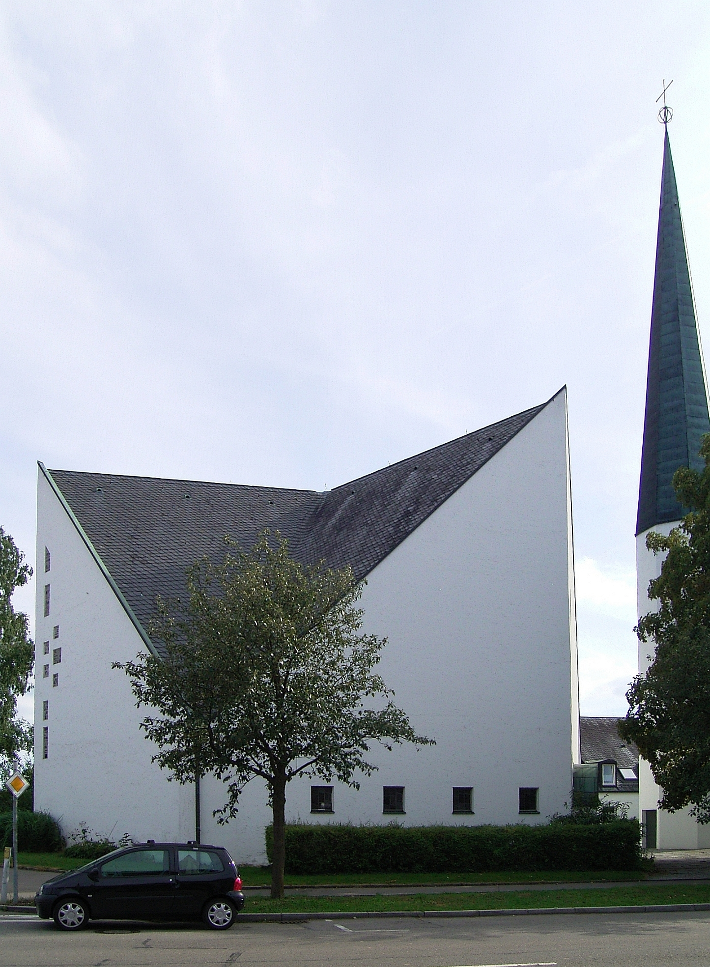 Versöhnungskirche, Ulm, quarter Wiblingen, Germany